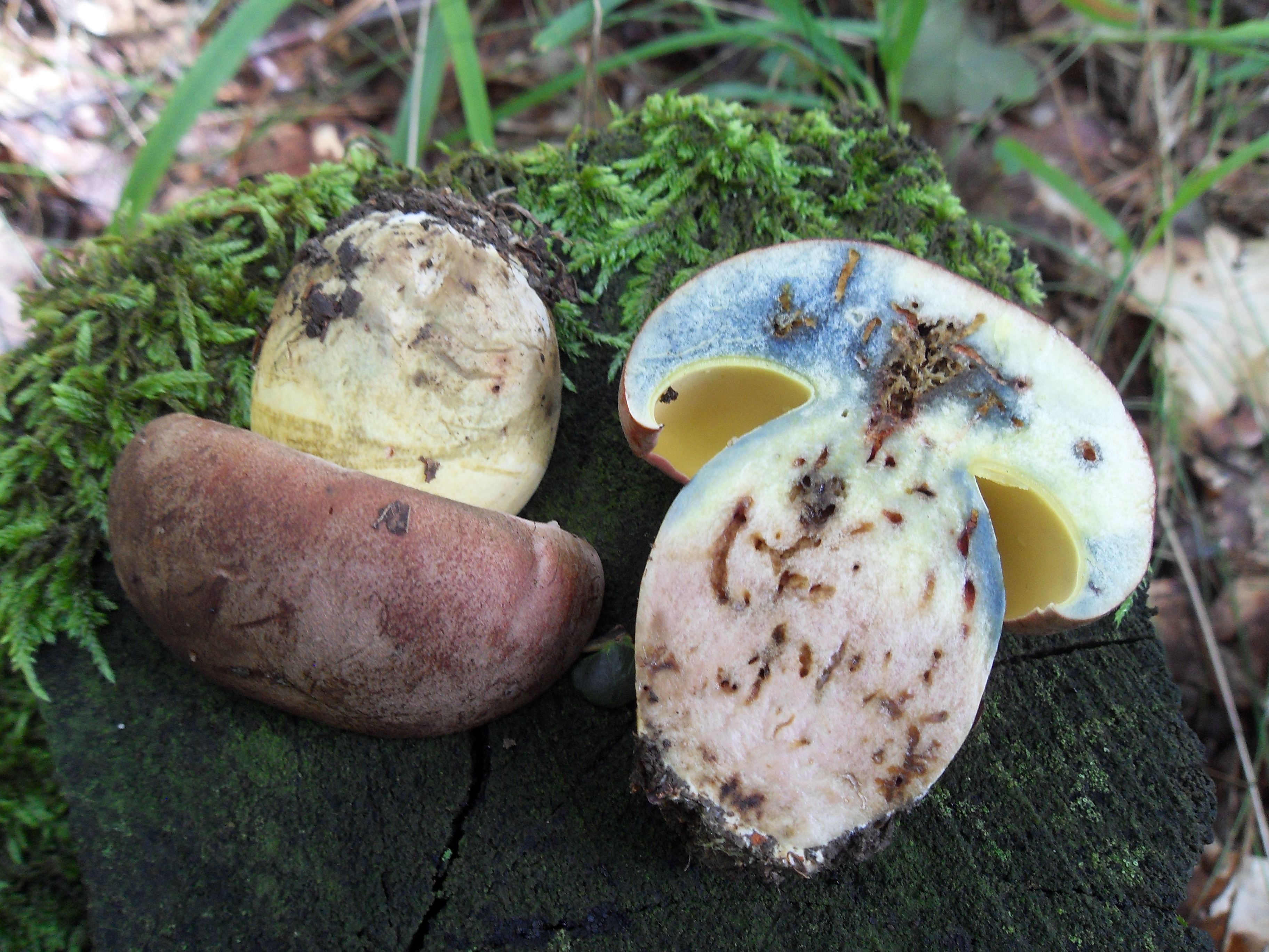 Boletus fuscoroseus